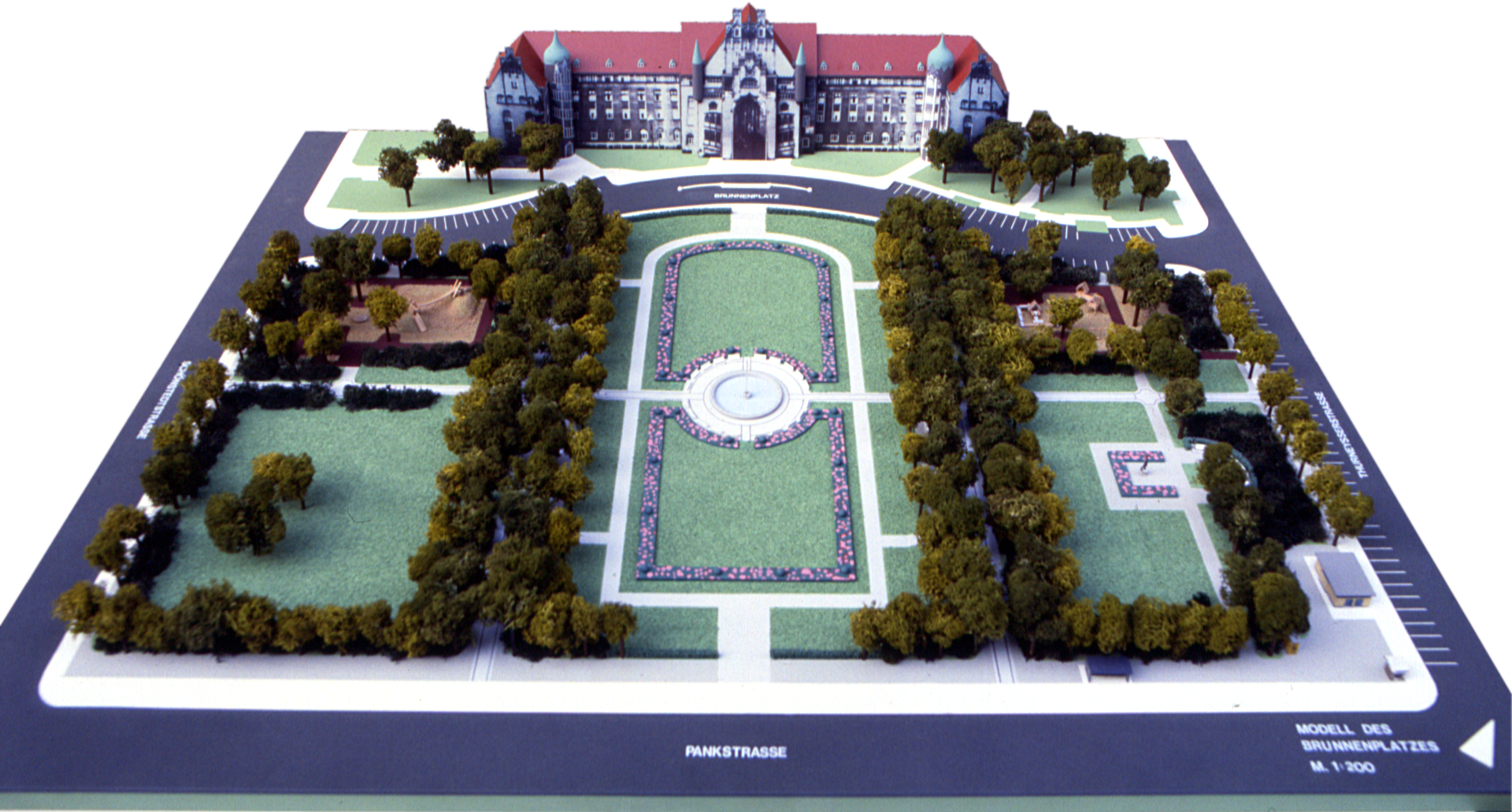 Model of the design for the Brunnenplatz in front of a court in Berlin. Created by Michael Hennemnann in 1985. Scale 1:200.